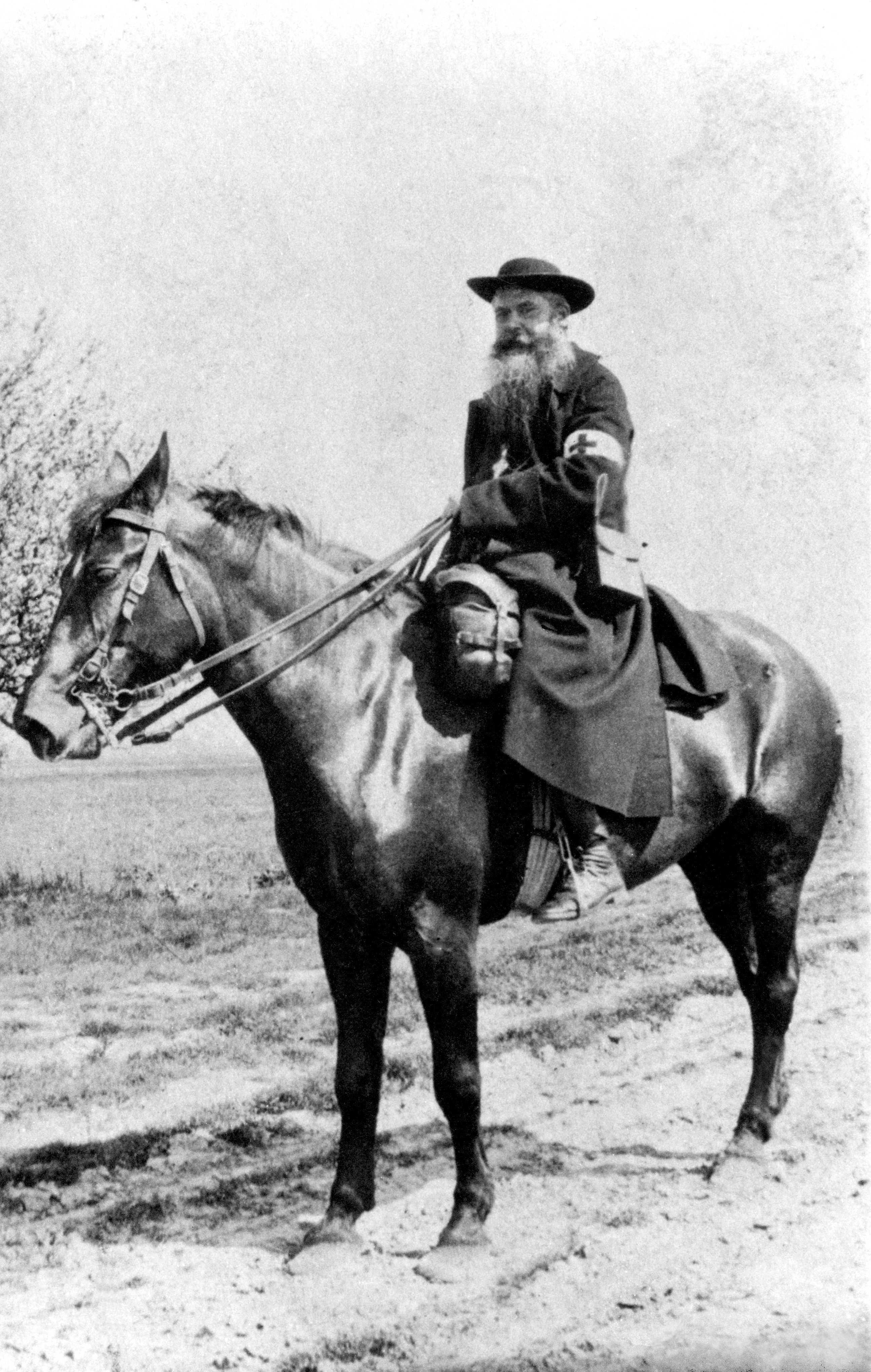 A photograph from World War I of Blessed Daniel Brottier, who was at the time a chaplain for the army